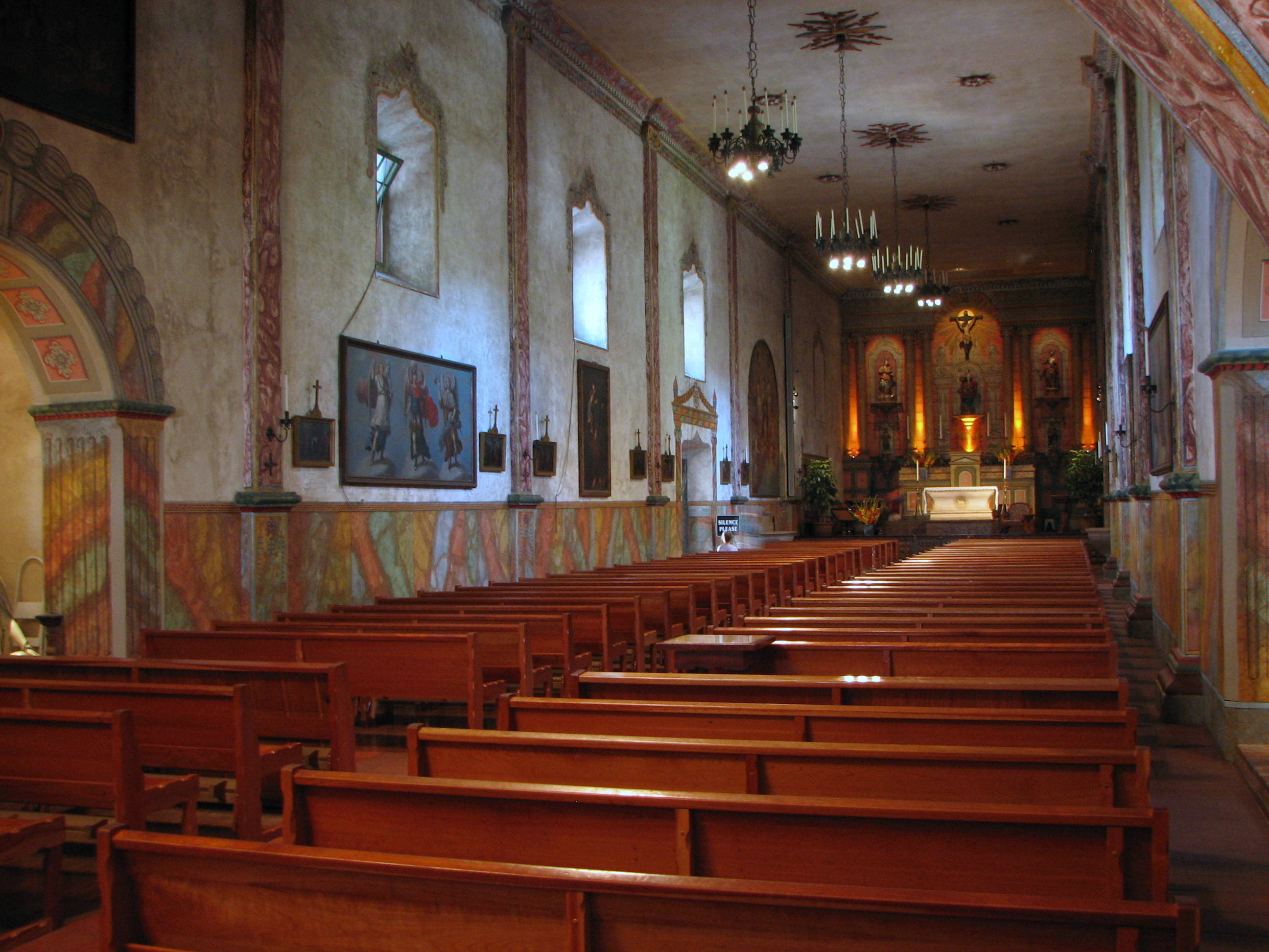 Mission Santa Barbara chapel, Santa Barbara, California, USA